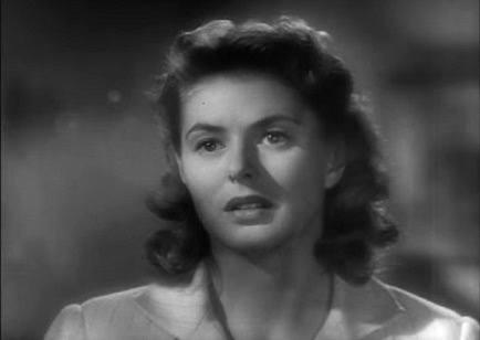 This screenshot shows Ingrid Bergman in a scene from a Spellbound film.